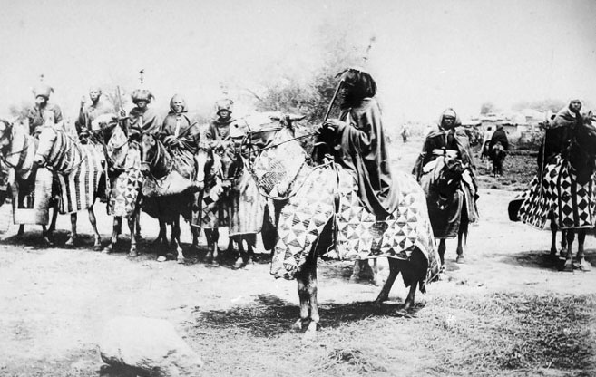 Mundang horsemen (Pictures taken by the Mission Moll, 1905-1907, Congo, Oubangui-Chari, Tchad, Cameroun